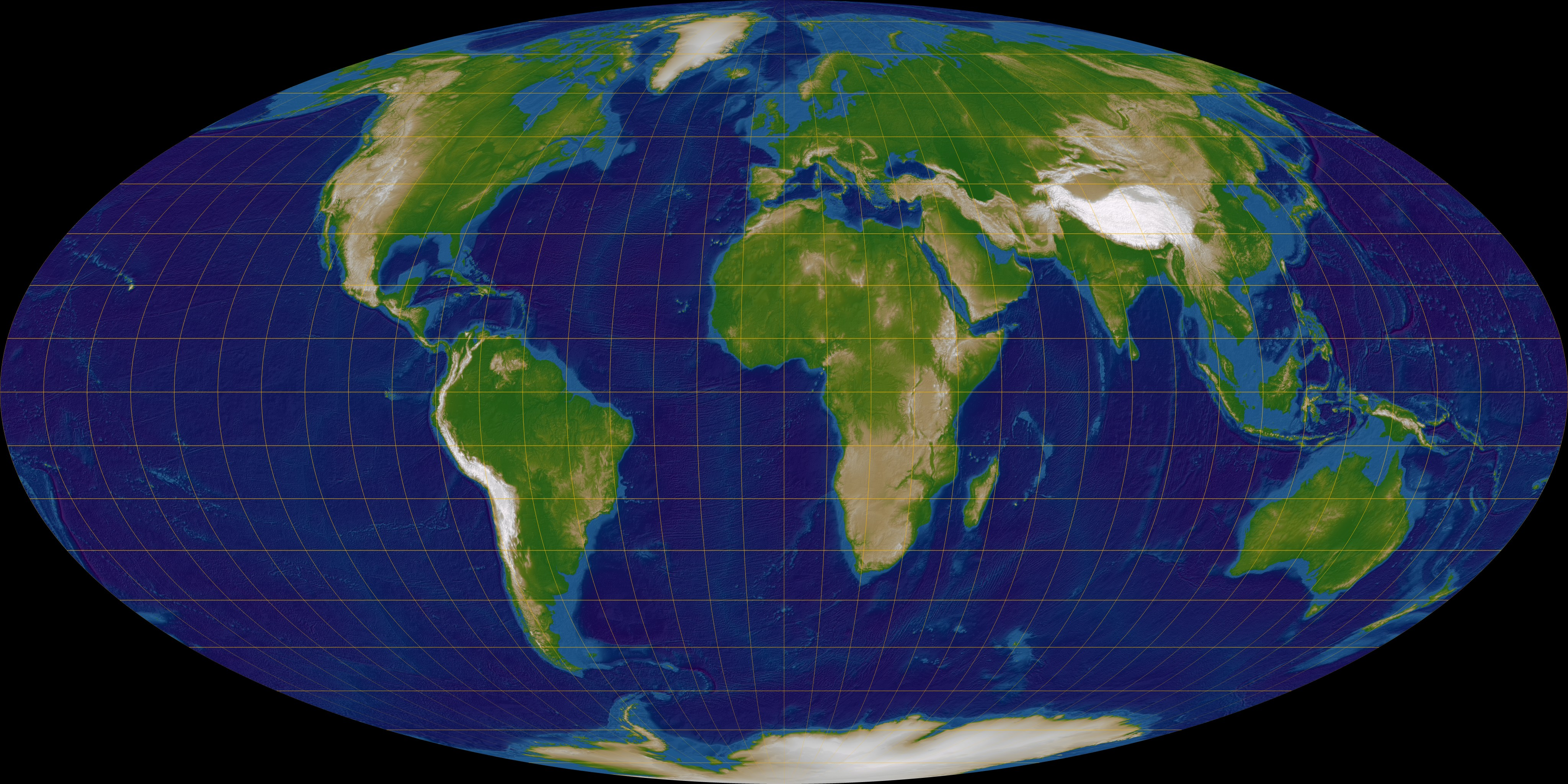 Mollweide's projection